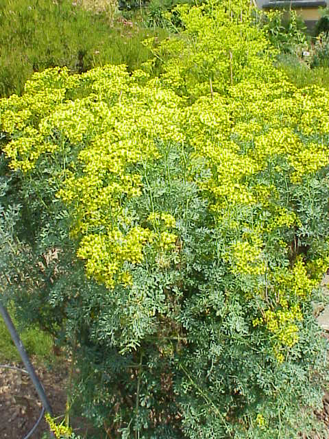 Species: Ruta chalepensis Family: Rutaceae Image No. 12